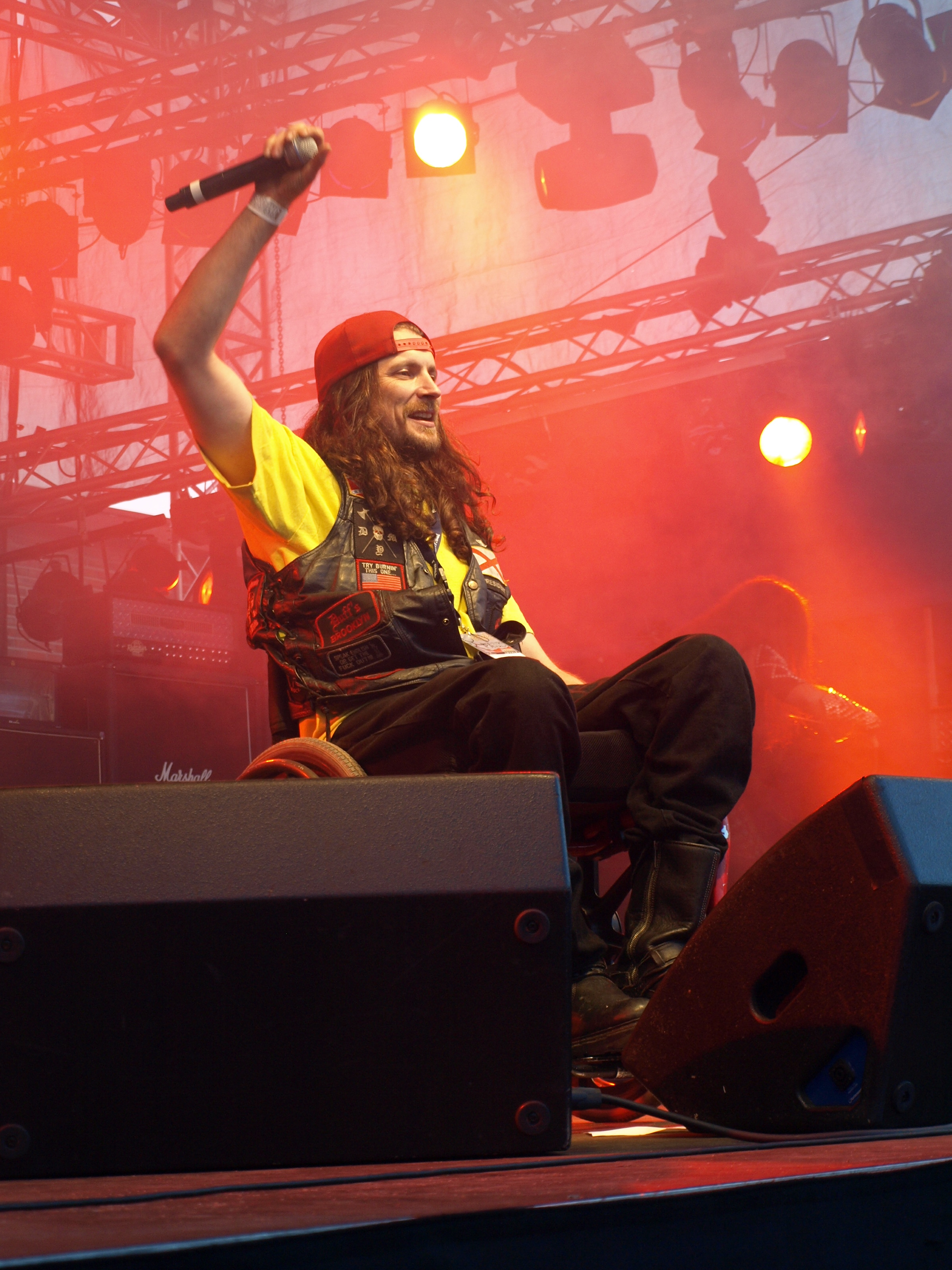 American death metal band Possessed live at Jalometalli 2008 in Oulu.